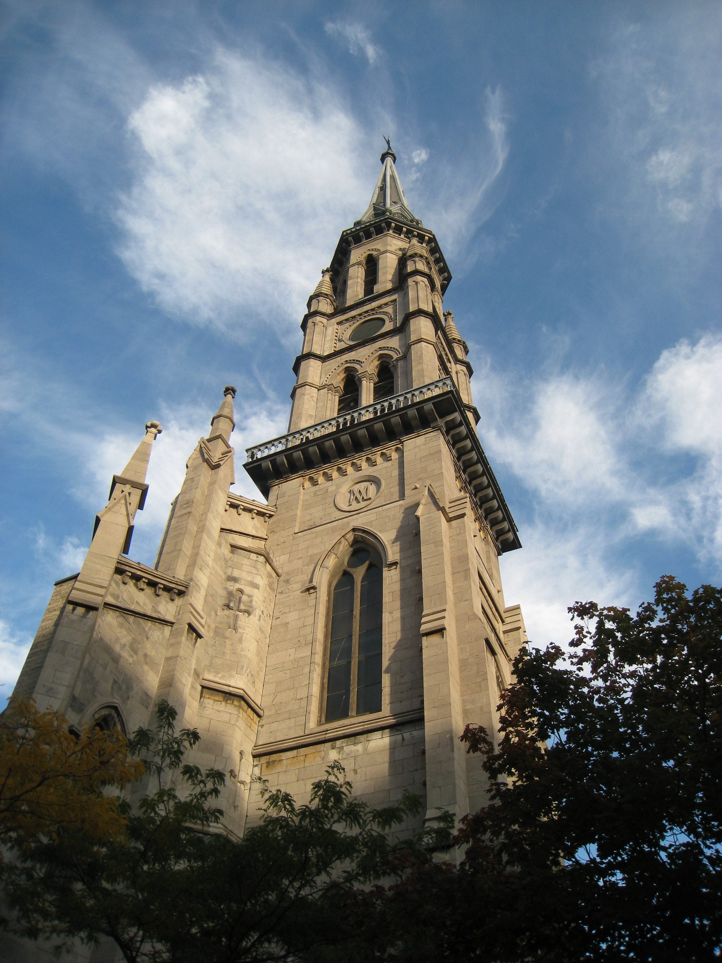 Université du Québec à Montréal - tower. Montreal, PQ, Canada. I took this photograph.